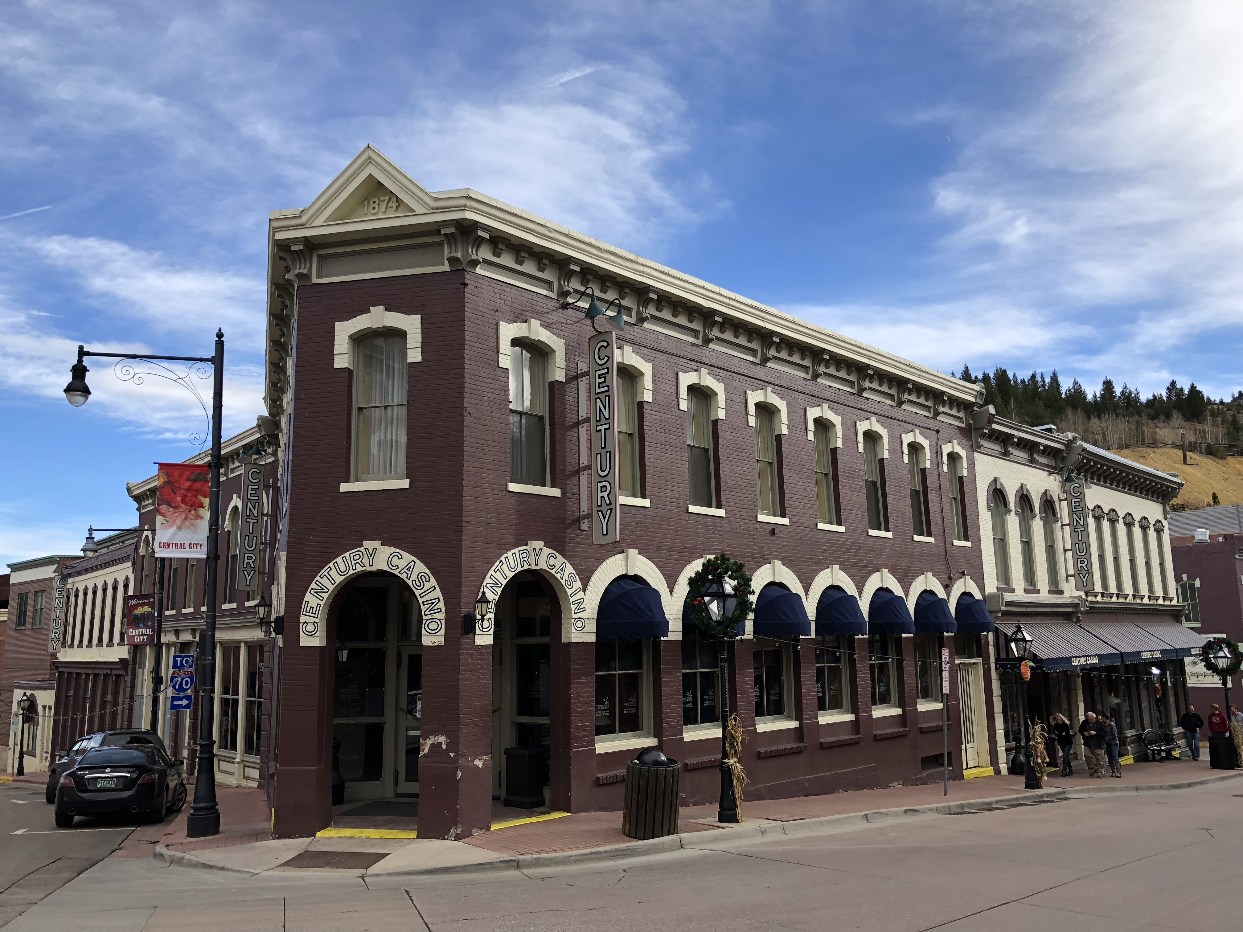 Century Casino Central City, in Central City, owned by Century Casinos